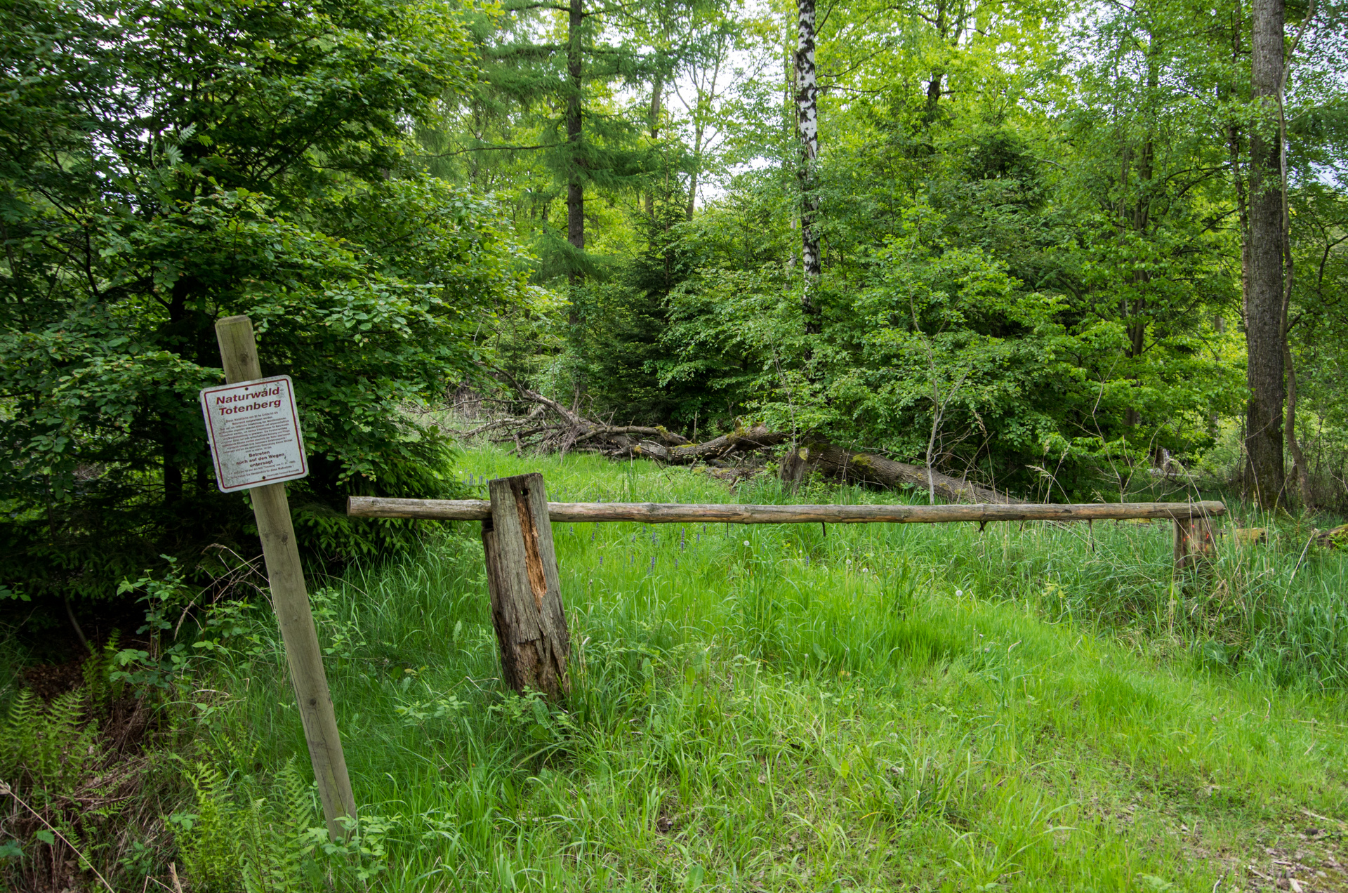 Core zone of the nature reserve Totenberg